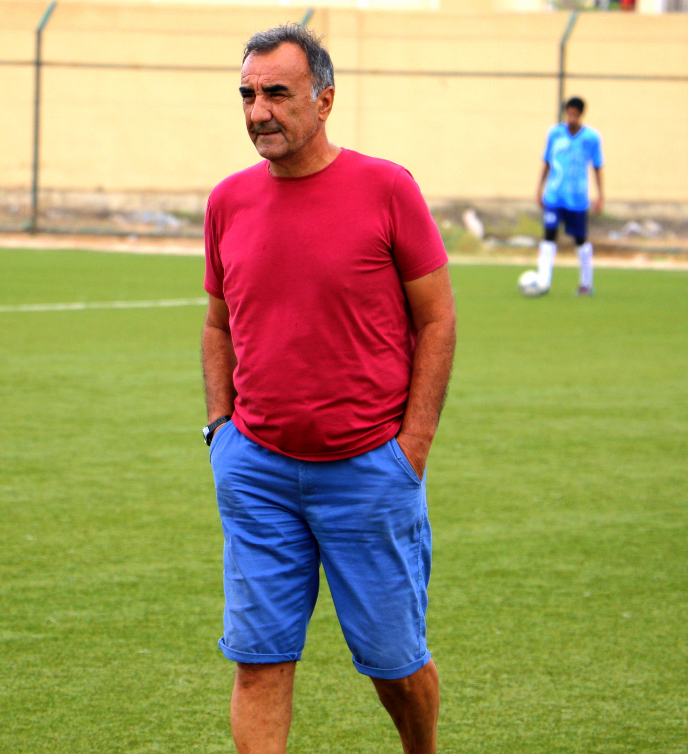 Senad Kreso as the Head Coach of Salalah. Photographer email id